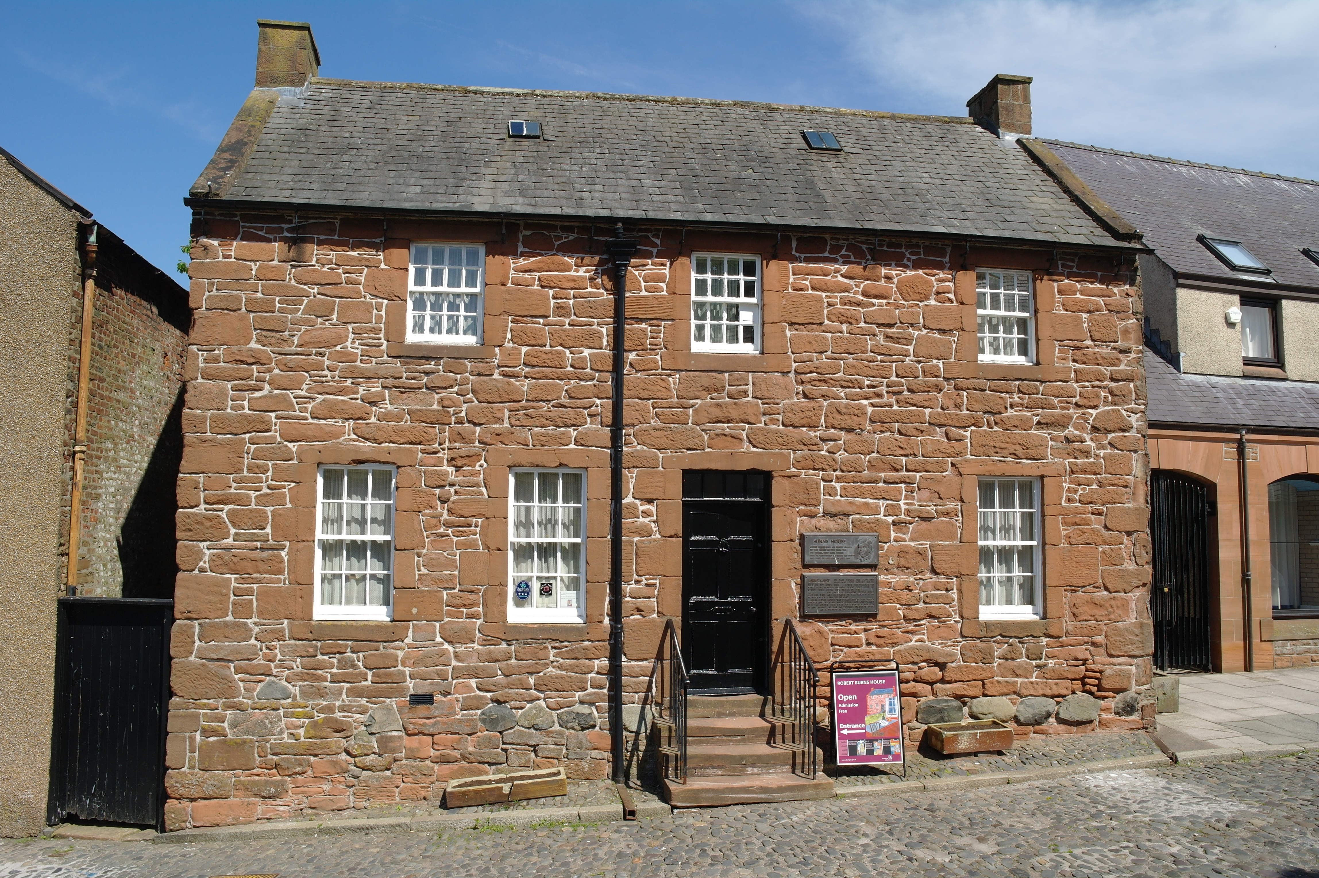 Robert Burns' house in Dumfries